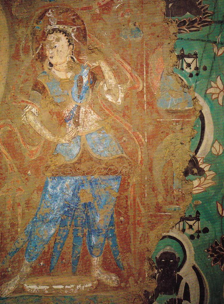 Mural from Mogao cave 263, showing underlying painting. Northern Wei Dynasty. Later painting seen on right hand side.